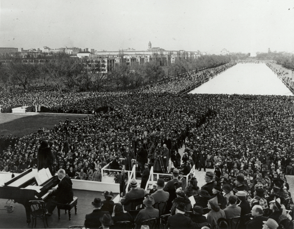 American contralto Marian Anderson performs in front of 75,000 spectators in Potomac Park. Finnish accompanist Kosti Vehanen is on the piano.